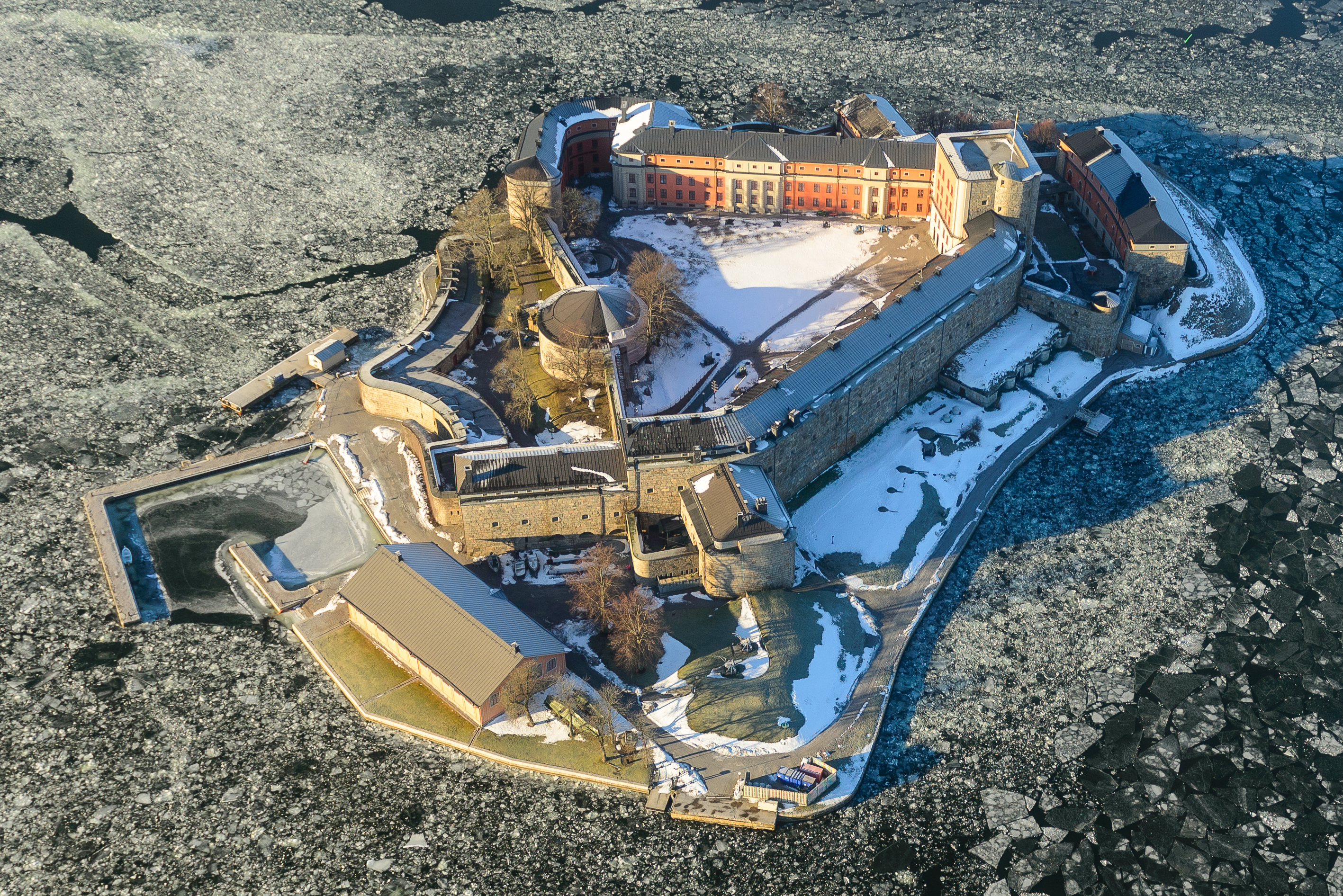 Vaxholm Castle.